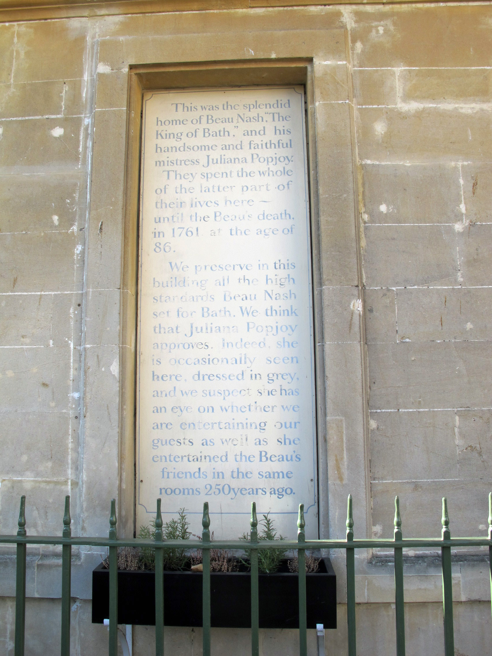 Bath, Somerset.